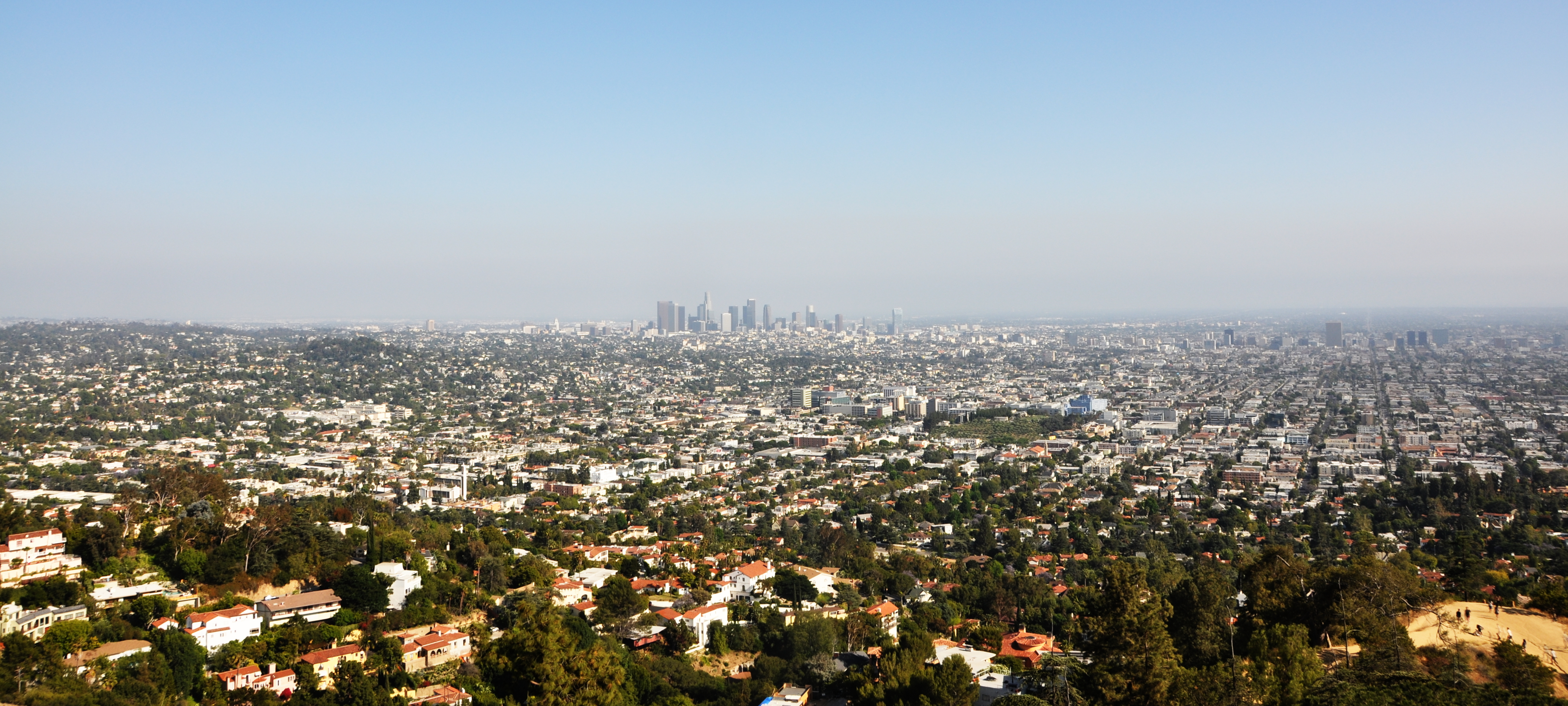 A view of Los Angeles from the Observatory